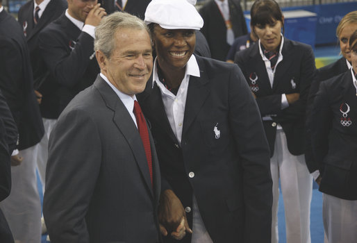 President George W. Bush stands with Danielle Scott-Arruda, a member of the U.S. Olympic Volleyball team, as he meets with the athletes Friday, Aug. 8, 2008, prior to the start of the Opening Ceremony of the 2008 Summer Olympic Games in Beijing.